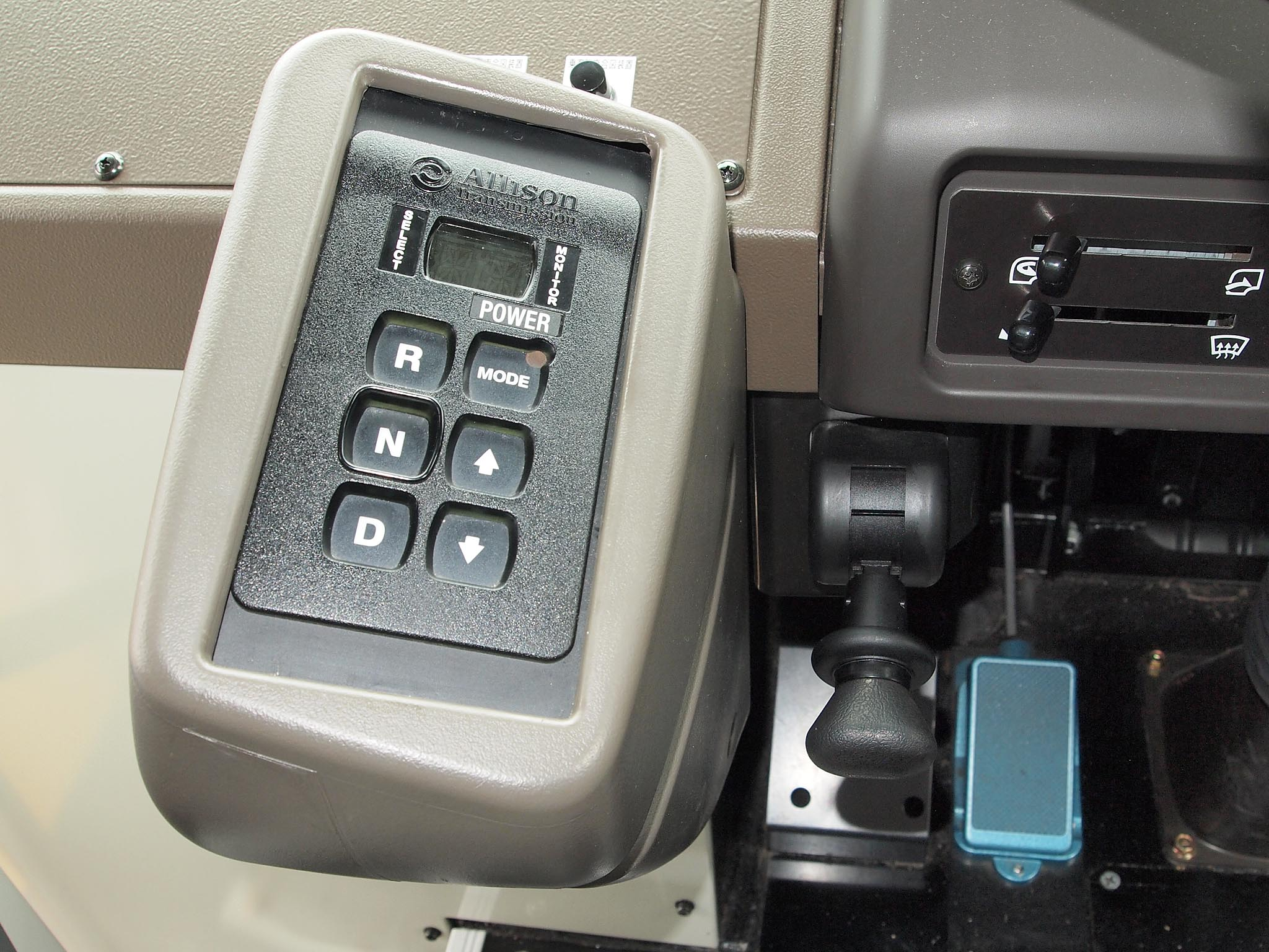 Cockpit of Mitsubishi Fuso Aero Star MP35F and MP37F series, closed up of transmission shift selector and parking brake lever. Transmission: Allison T310 series standard, shift selector is push button type.